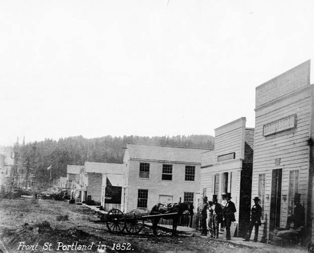 Front Street, Portland as it was in July 1852. This is West side of Front St. looking South from Ash to Salmon. Warehouses used by McLarin, in general warehouse business, afterwards partners with Corbett. Just beyond bakery and confectionary, H.W. Corbett started his first business with next to him Josiah Failing's, the father of Henry, Edward and James. The figures in photograph from L-R are: C. P. Bacon; Dolph Miller, driver for Wells Fargo; T. J. Dryer (in door); W. H. Berhhard, agent Wells Fargo & Co.; Henry W. Corbett; William Ogden; John W. Breck. (Identification: Oregon Historical Society Photo Archives)